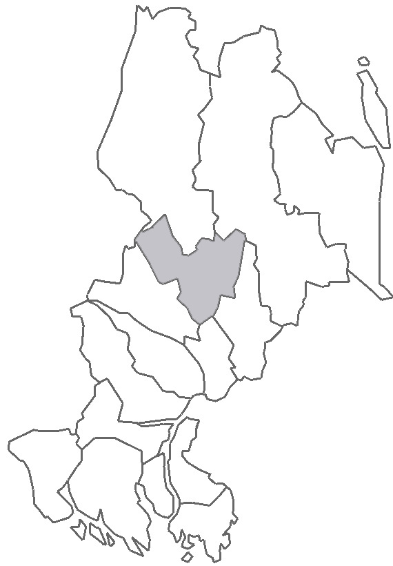 Map describing the location of Norunda Hundred in Uppsala County, Sweden.